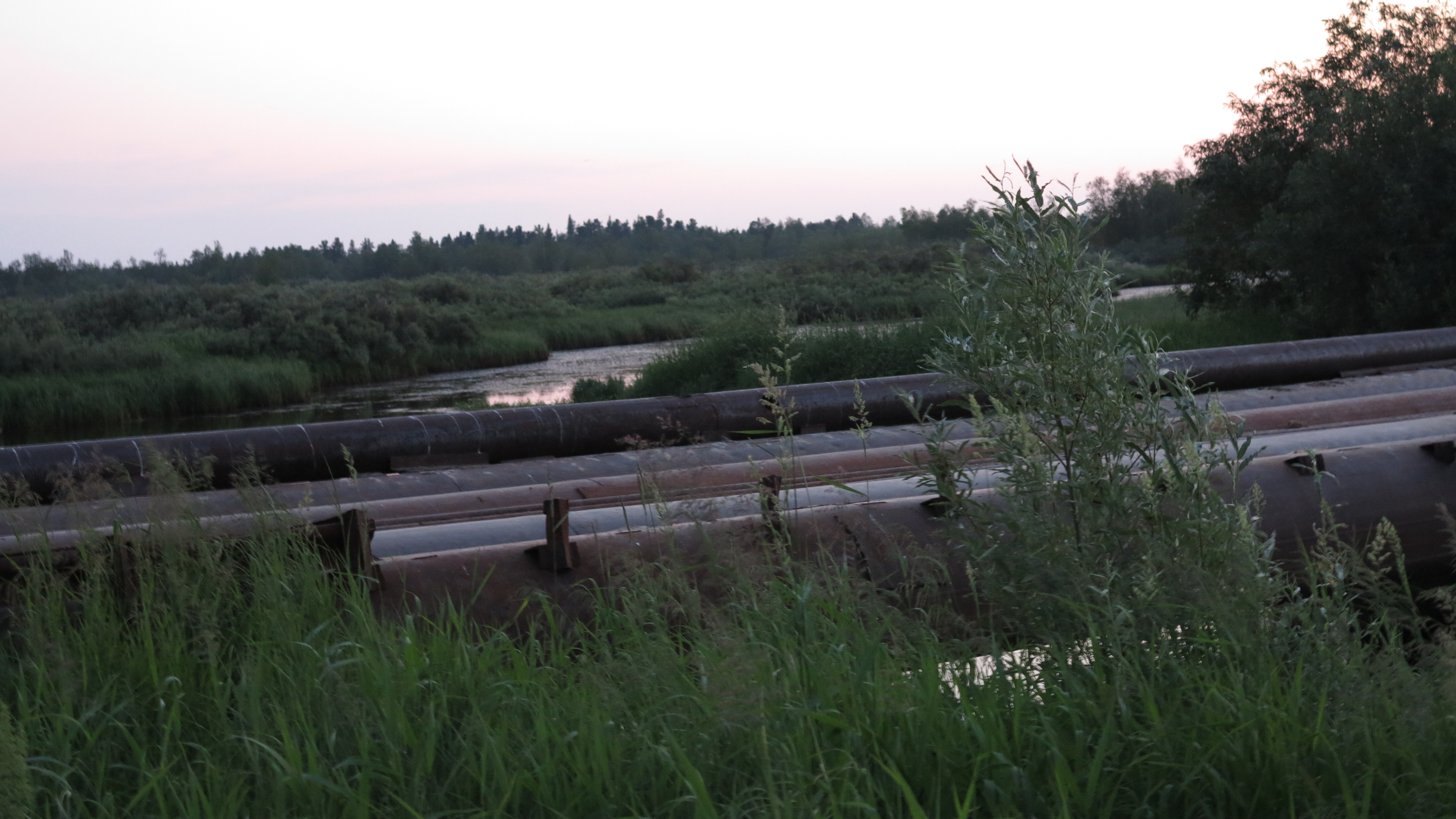 Bridge over the River Pohi-Yaha Latitude 63 ° 12'45.45 "longitude 77 ° 51'22.12" In